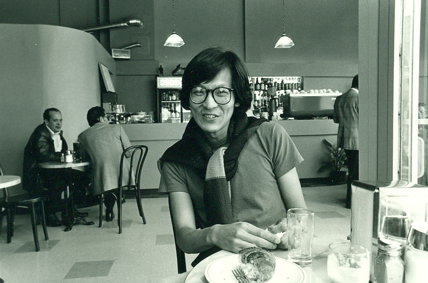 Chinese American film director Wayne Wang 1979, Caffe Puccini, 411 Columbus Avenue, San Francisco California.